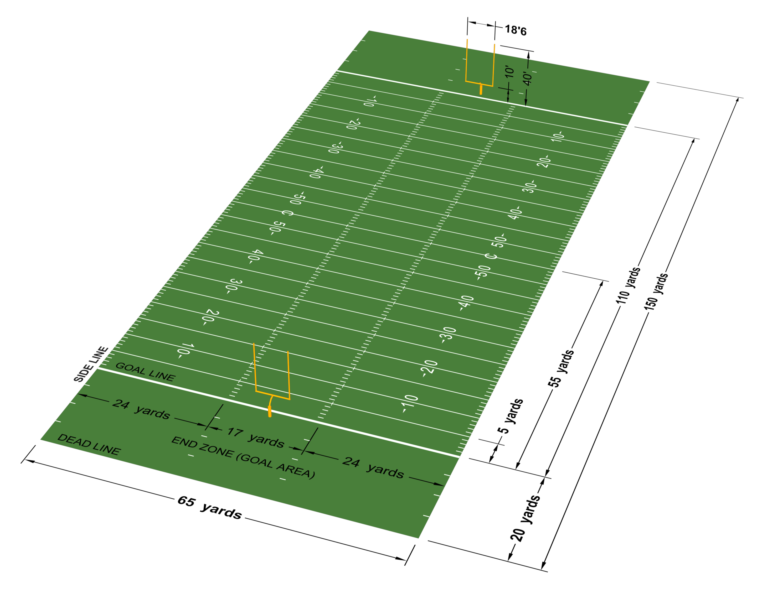 Diagram of a Canadian football field. Model created and rendered with AutoCAD 2006.